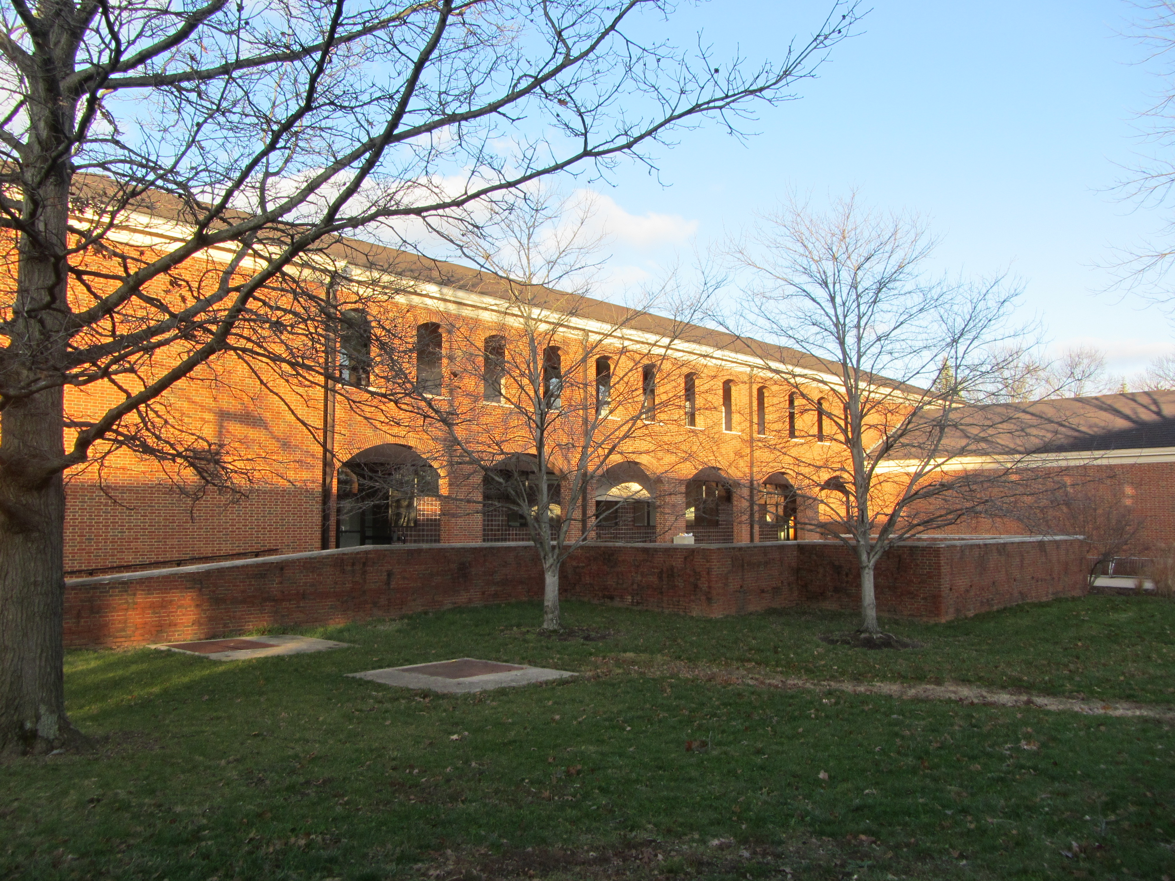 South facade of the Art and Art Education building